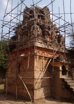 Thalikesvarartemple தளிகேசுவரர் கோயில்